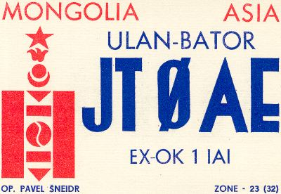 QSL card from Mongolian amateur radio station JT0AE.